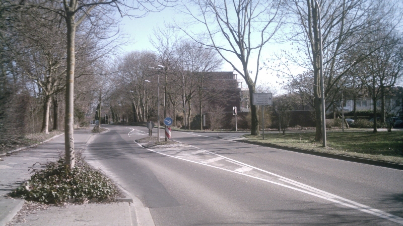 Bachstraße in Hamm, Viersen, Germany